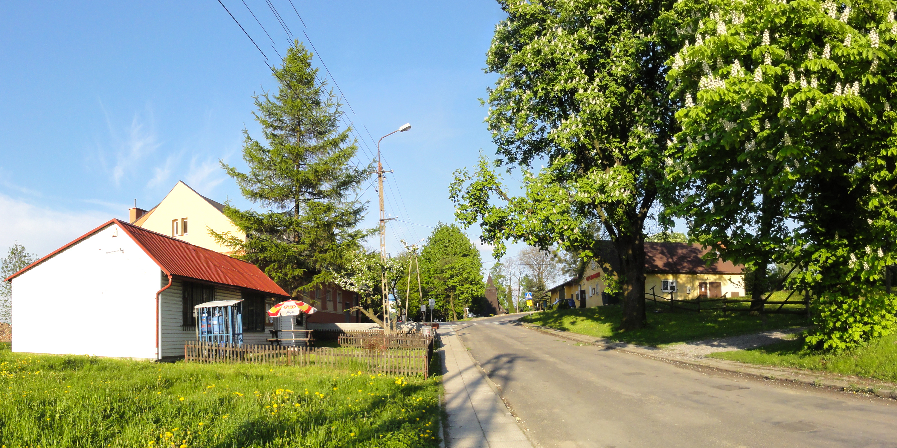 Zamarski village's centre